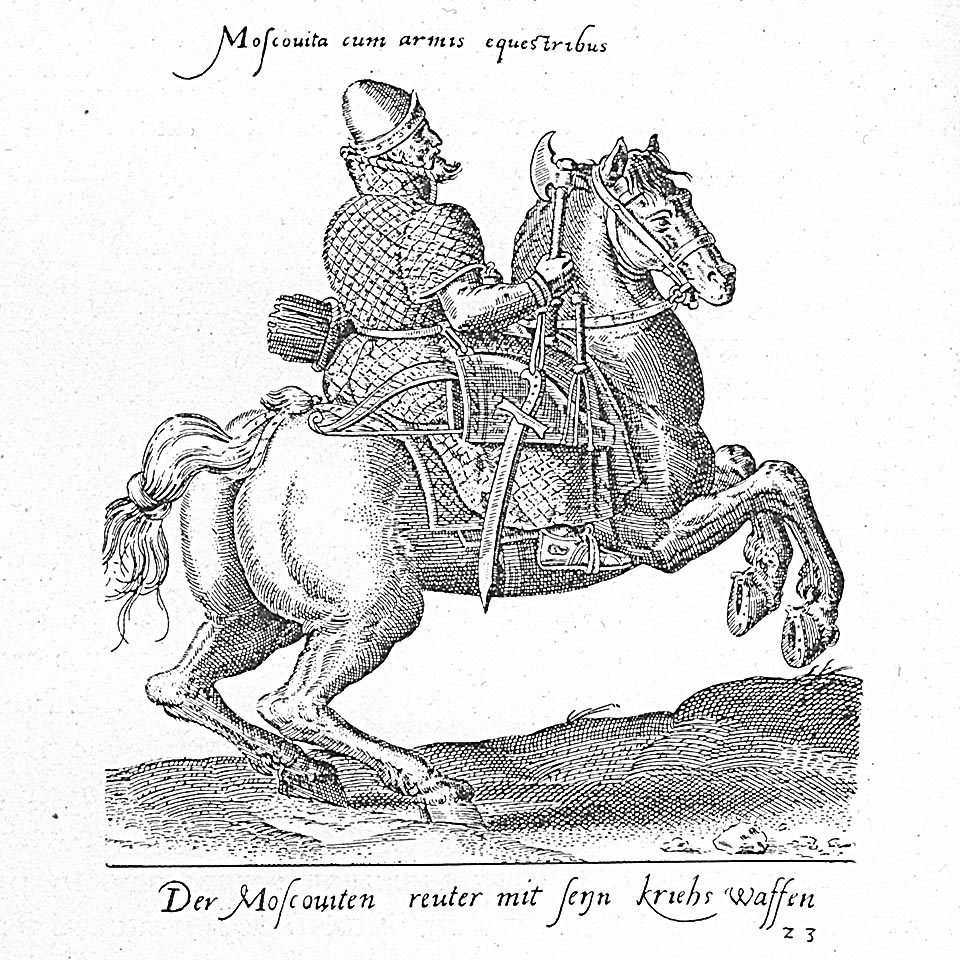 Equipment of muscovy cavalryman.